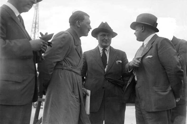 Adolf Hitler discussing the government crisis with his staff! From right to left, Hitler's chief of staff Hauptmann (Captain) Röhm [Ernst Röhm] leads the conversation with Adolf Hitler on the left of the picture listening intently; in the middle is Reichstag President Hauptmann (Captain) Göring [Hermann Göring].